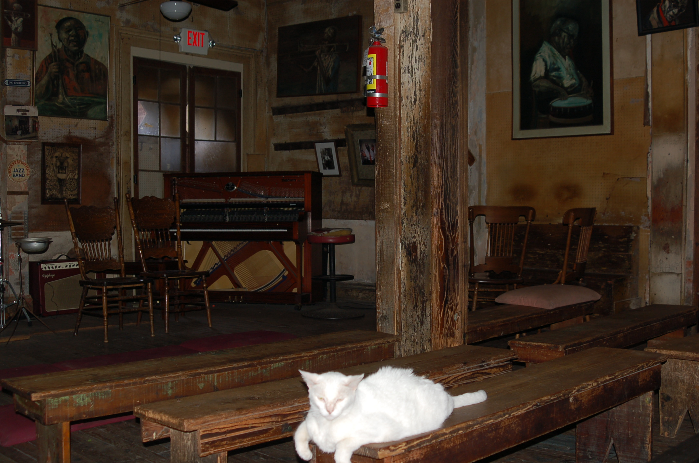 "Jazz Kitty", Preservation Hall, New Orleans "This cat calls Preservation Hall home. When Katrina hit, him and his other feline friends somehow survived. People who knew about the cats would put food through the iron gates in front of Preservation Hall. Somehow this old guy made it through"